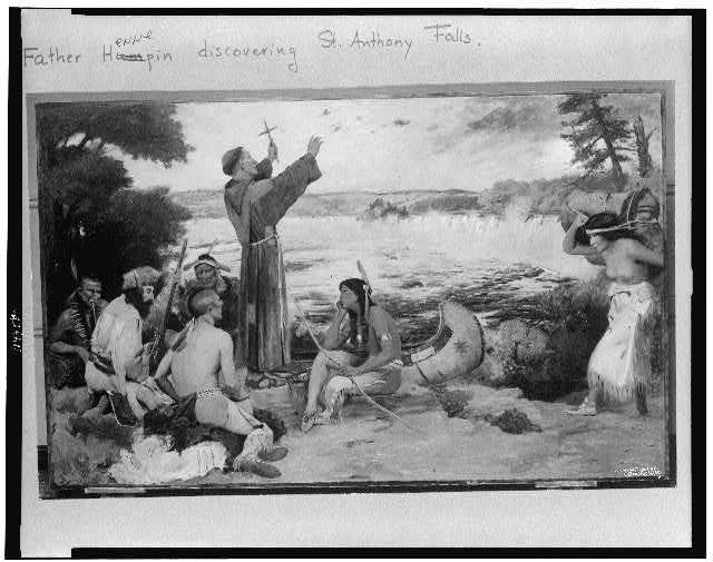 Father Louis Hennepin discovering Saint Anthony Falls.